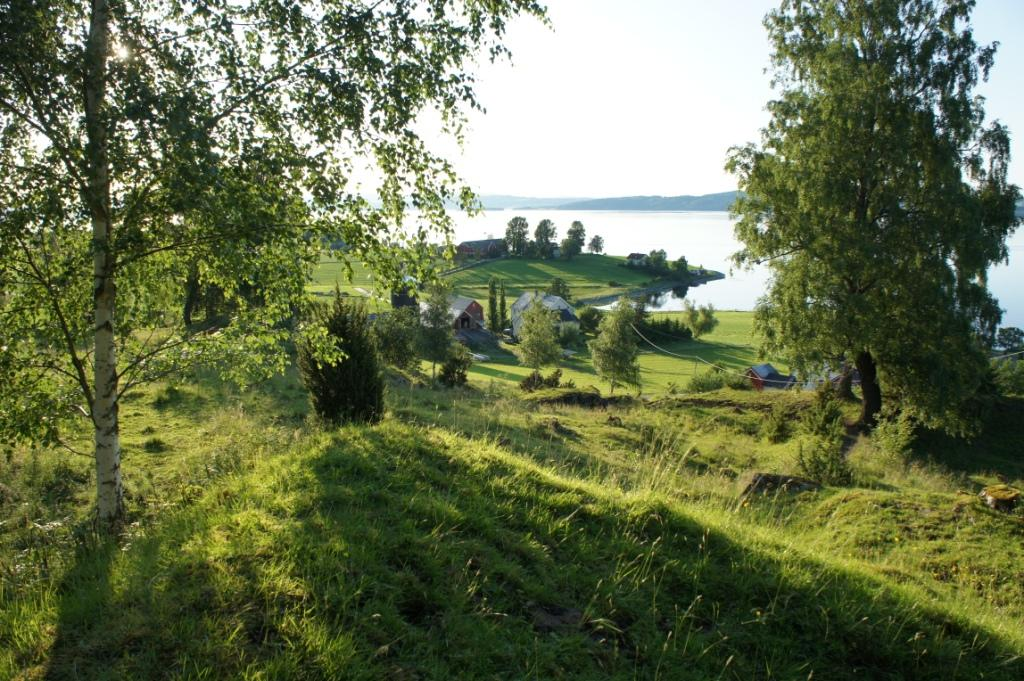 Photo of the star redoubt at Skånes.